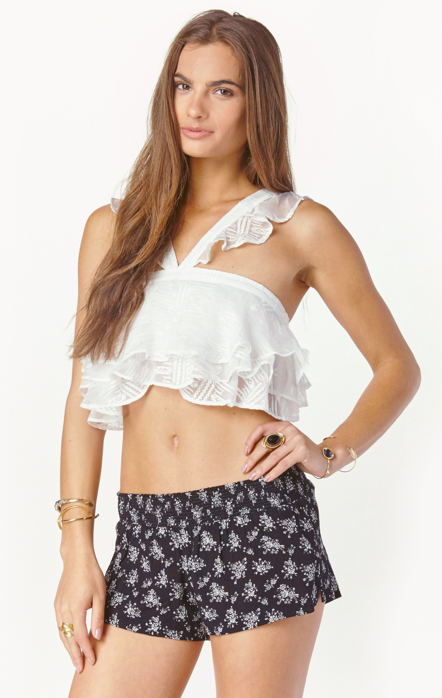 Picture of a woman in a frilly white crop top.